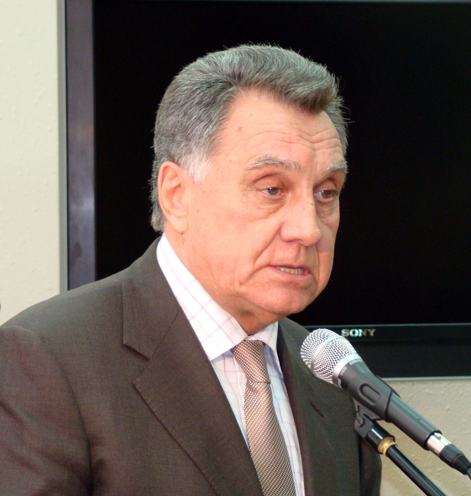 Prof. Dr. Viktor Gorchakov, Speaker of the Primorsky Regional Parliament (Vladivostok, Russia)